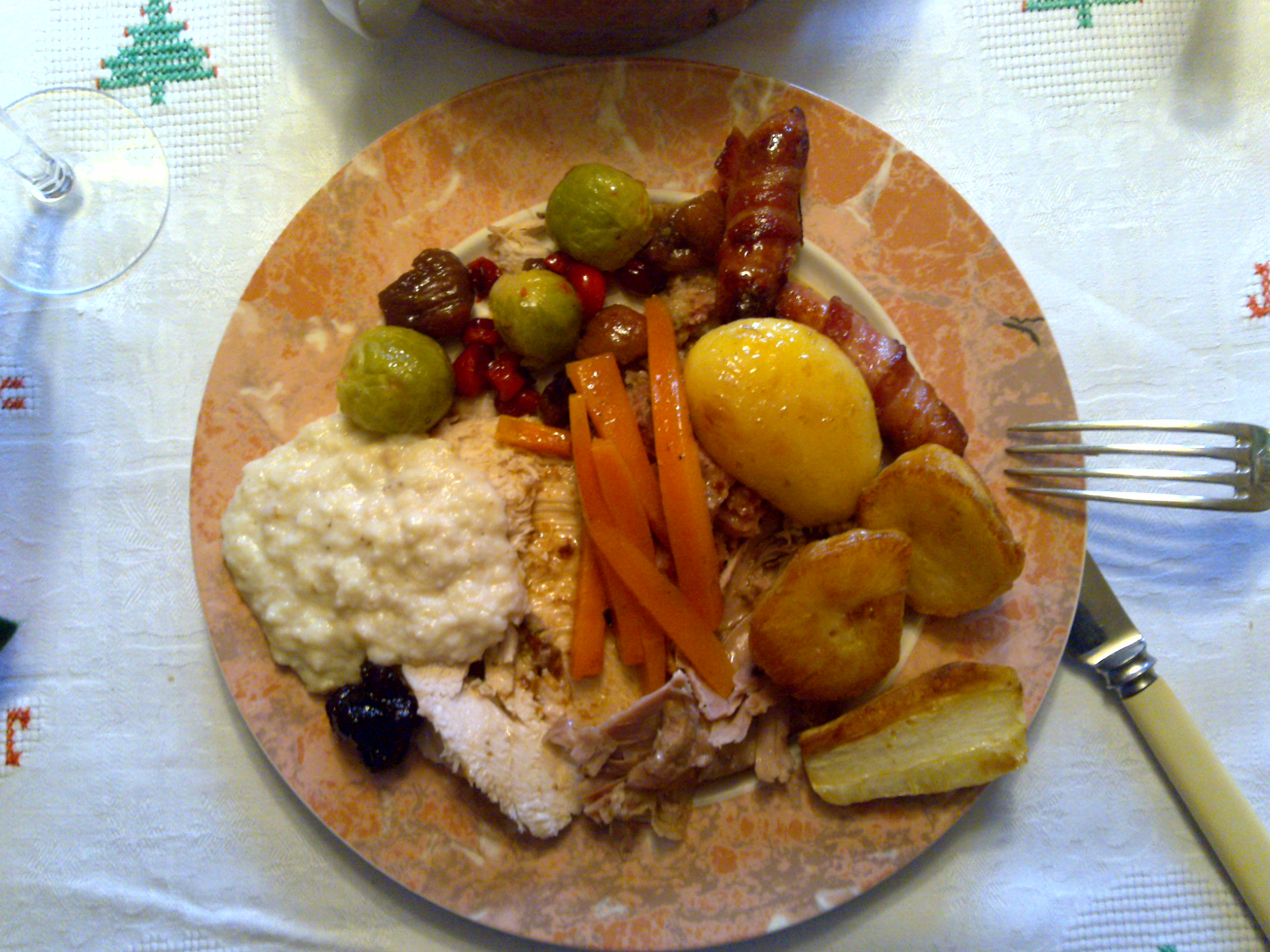 A traditional Christmas lunch in the United Kingdom- pigs in a blanket, roast potatoes, parsnip, roast meat, carrots, cranberry sauce, bread sauce, Brussel sprouts with cranberries and chestnuts